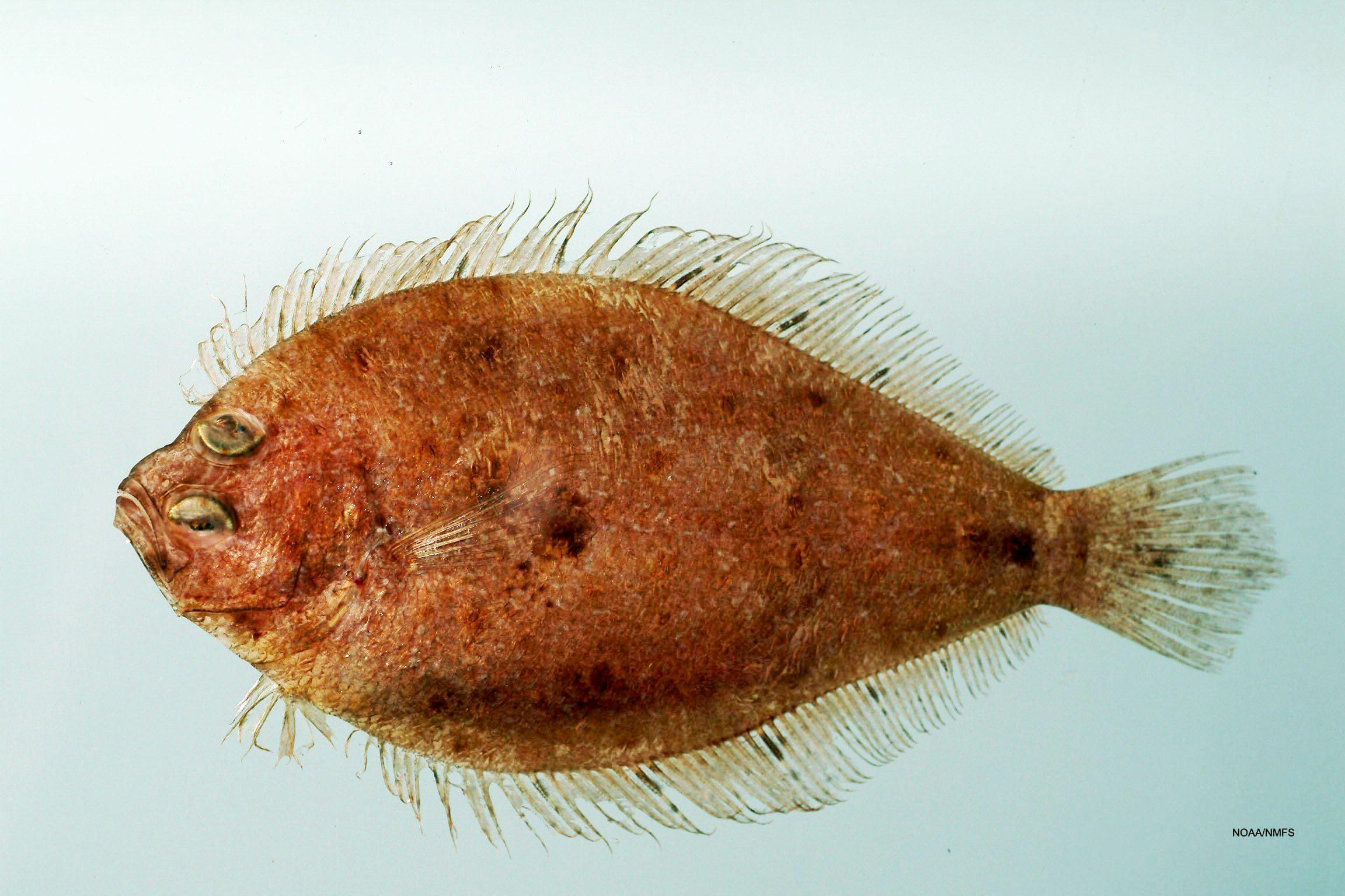 Shoal flounder ( Syacium gunteri ). Gulf of Mexico.